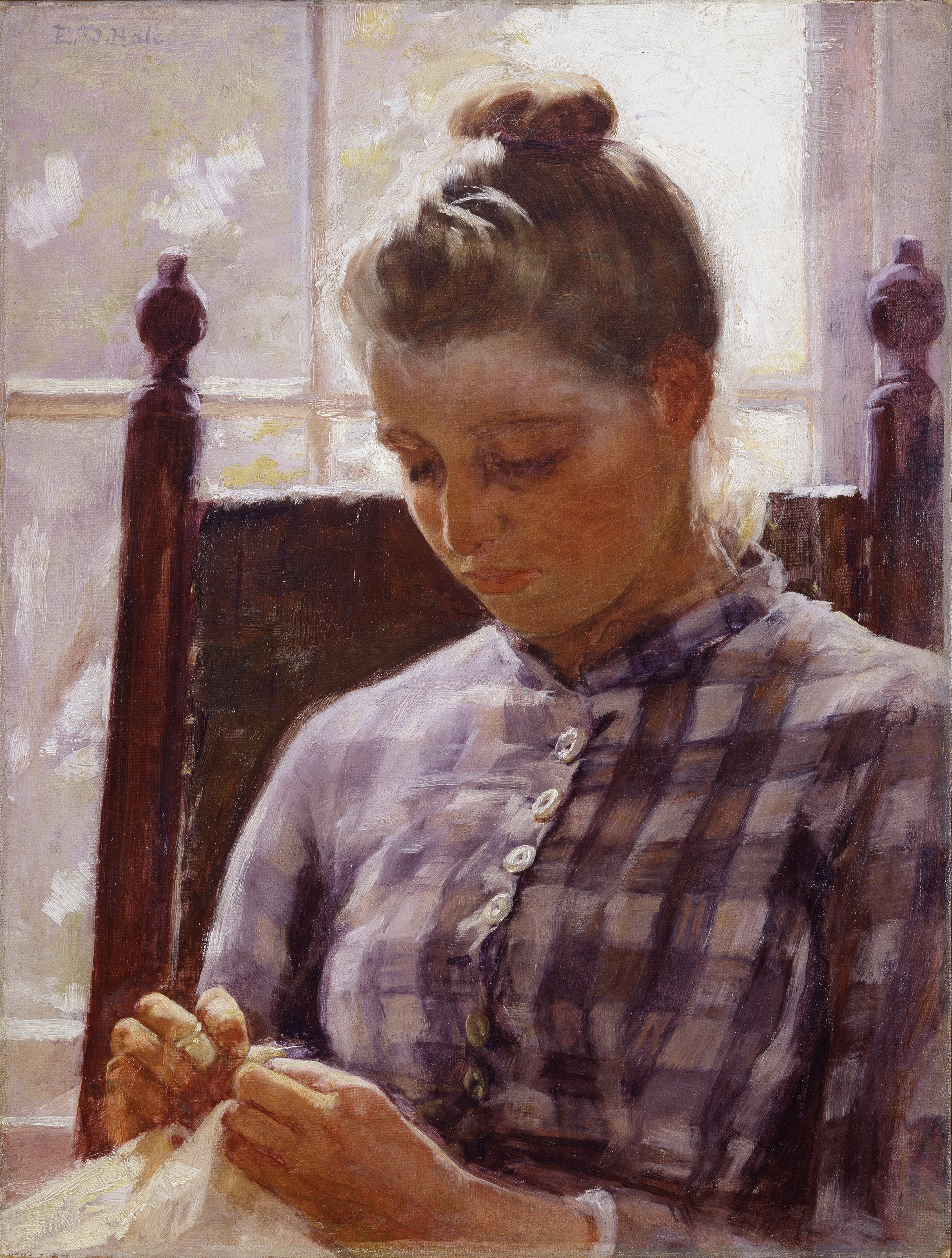 June by Ellen Day Hale. Here the sitter concentrates on her sewing, completely ignoring the dazzling landscape beyond the window. Hale’s extremely loose brushwork is visible in the thickly impastoed areas behind the sitter’s head. Yet we can clearly perceive the woman’s thimble and the quick movements of her needle glinting in the sunlight. - See more at